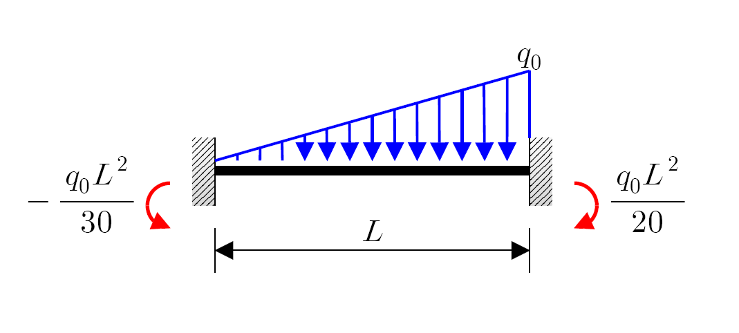 fixed end moments - linearly distributed load of maximum intensity q0.